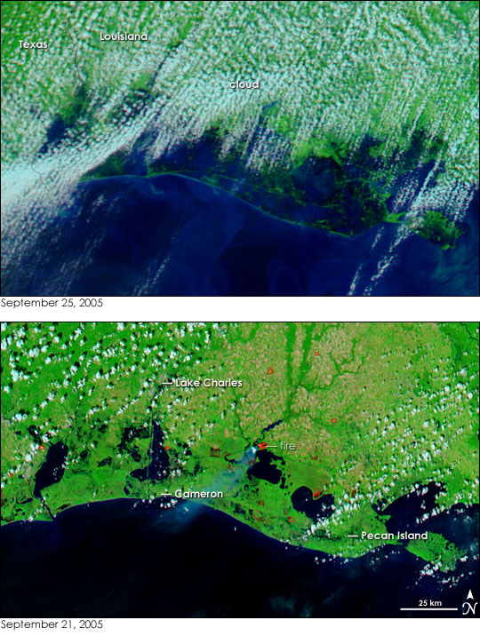 Two images showing the extent of flooding in Texas and Louisiana as a result of Hurricane Rita. Offshore, sediment swirls in the waters of the Gulf of Mexico, coloring the water blue in contrast to its normal inky black. The sediment is probably a combination of sludge stirred up from the ocean floor when Rita’s winds and rains churned Gulf waters and run-off from the extensive flooding seen in this image.